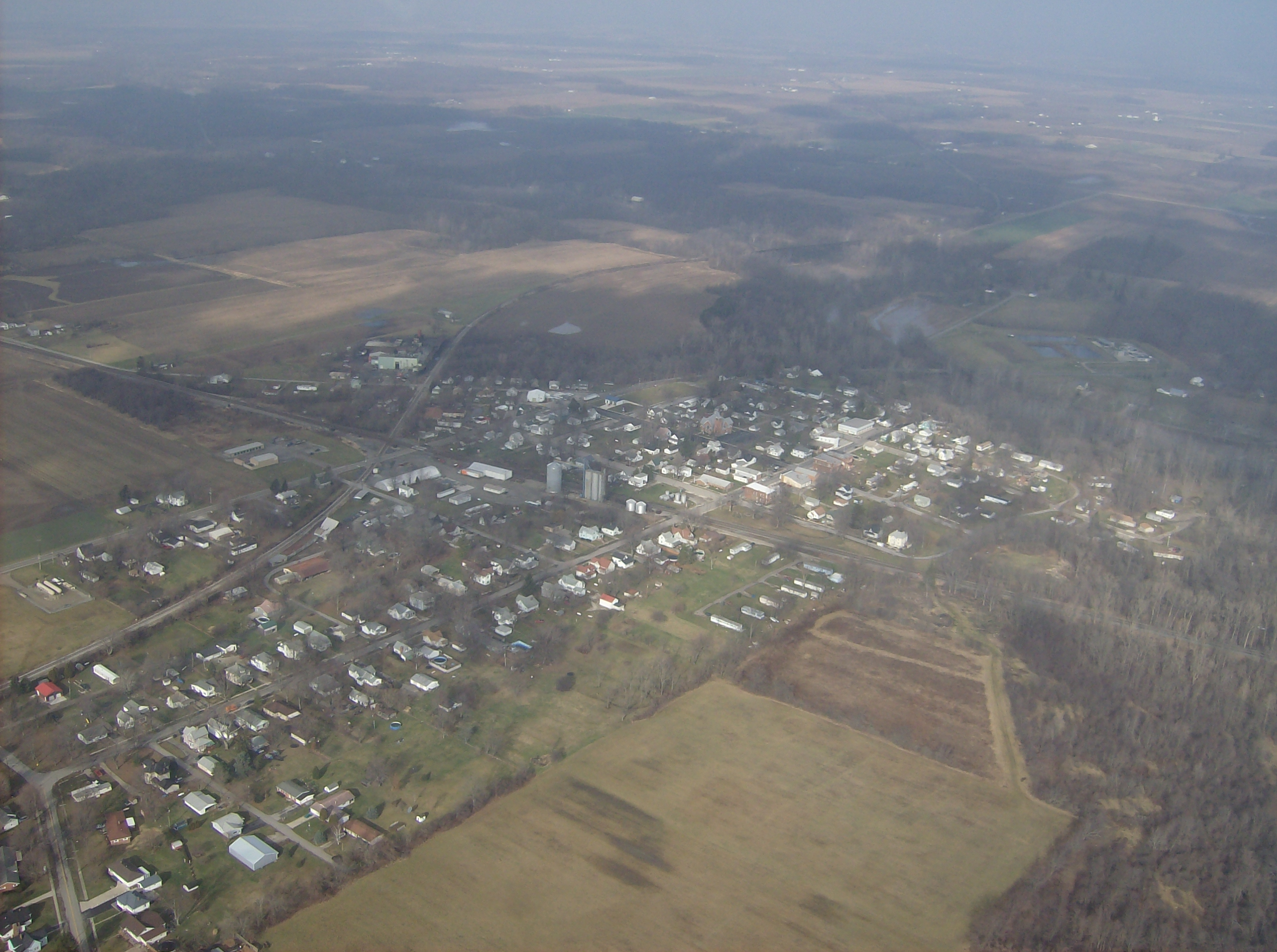 Aerial view of Quincy, Ohio, United States, with a bend of the upper Great Miami River north of the village. Picture taken from a Diamond Eclipse light airplane at an altitude of 2,300 feet MSL and a bearing of approximately 340º.